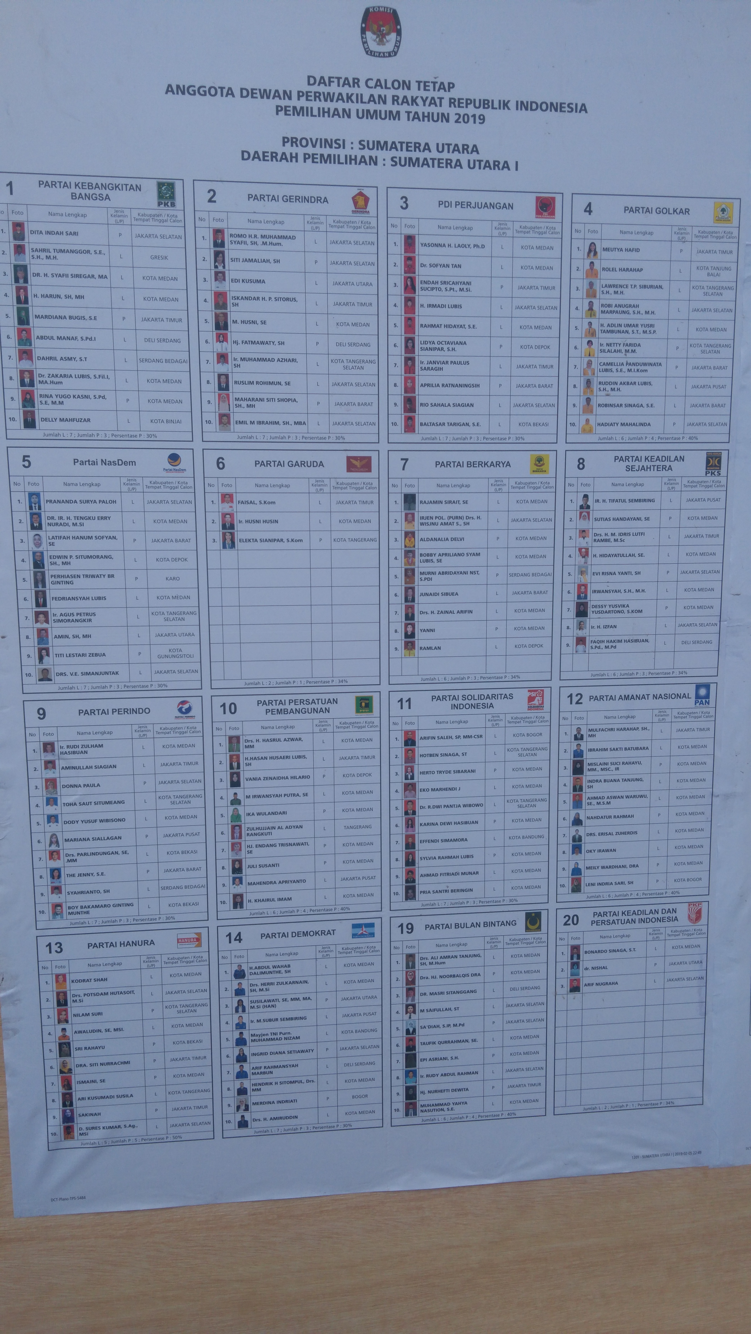 DPR RI Candidate North Sumatra for North Sumatra region 1